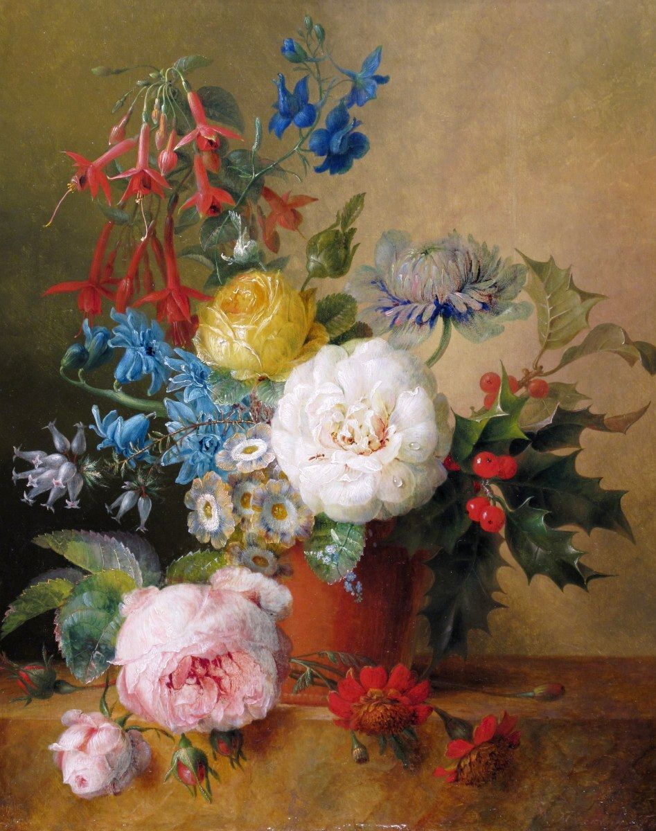 Painting by William Hekking